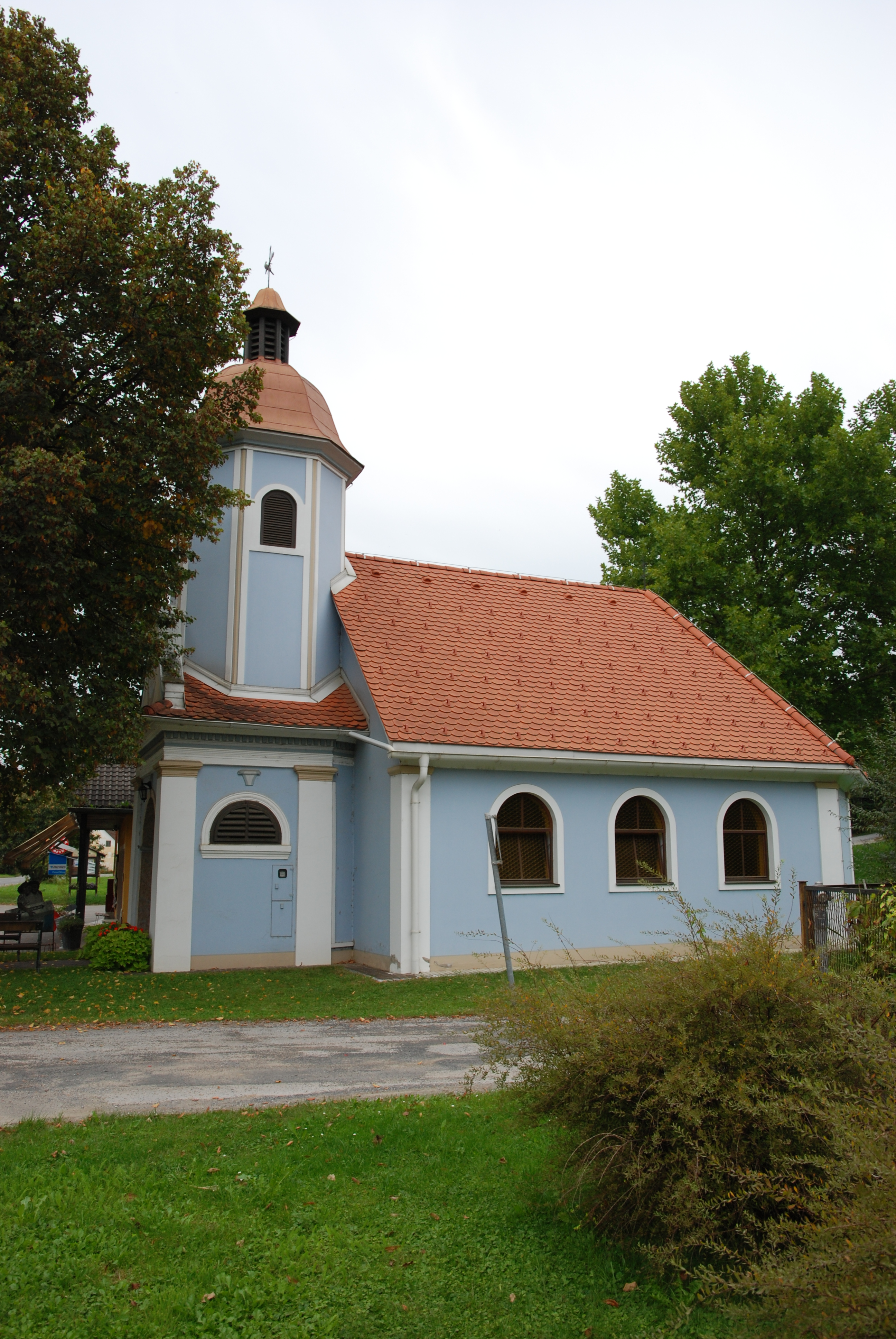 Kapelle Neudorf